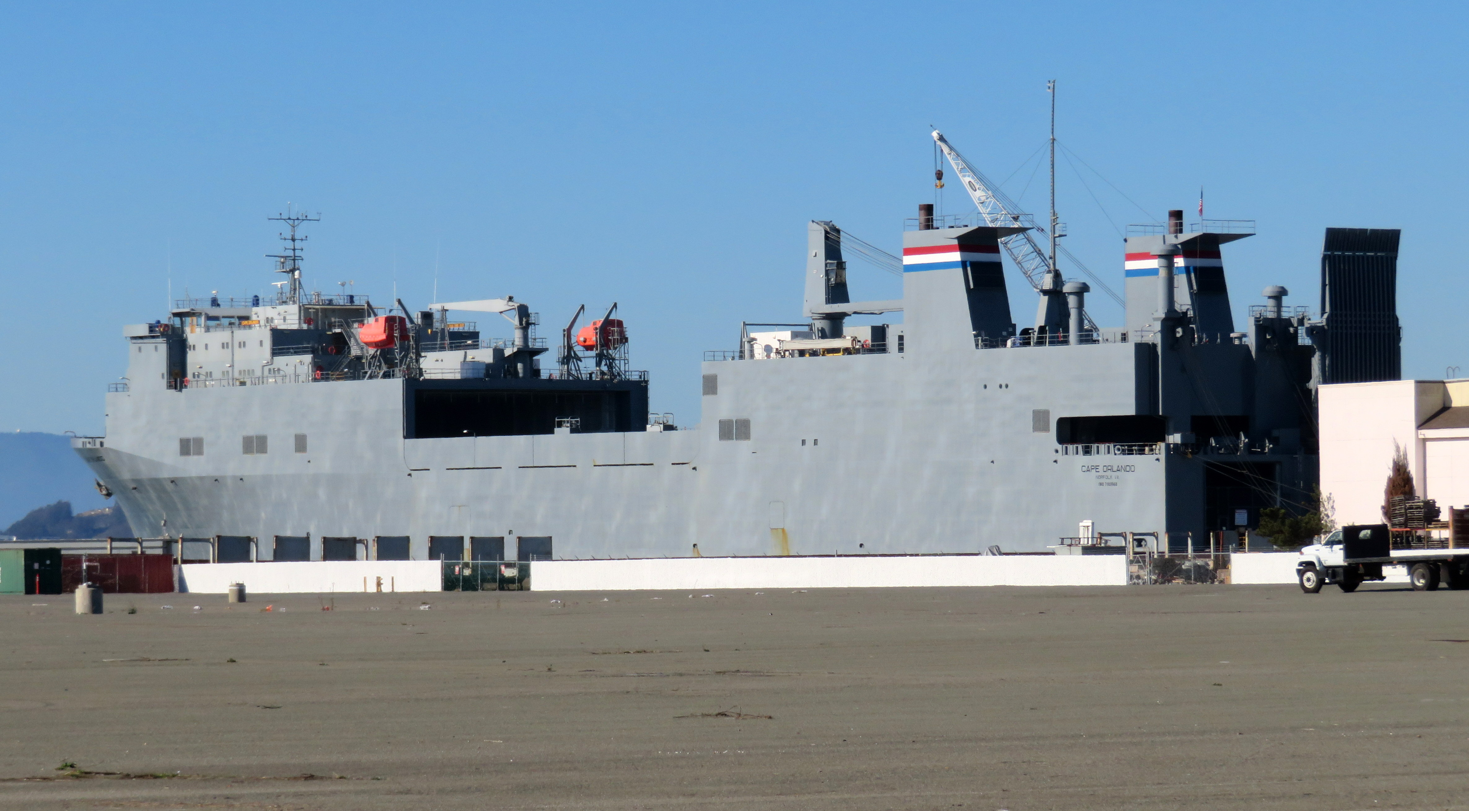 MV Cape Orlando at the former NAS Alameda in December 2018